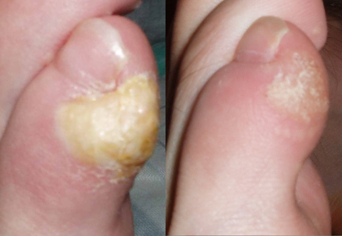 Callus evolution.